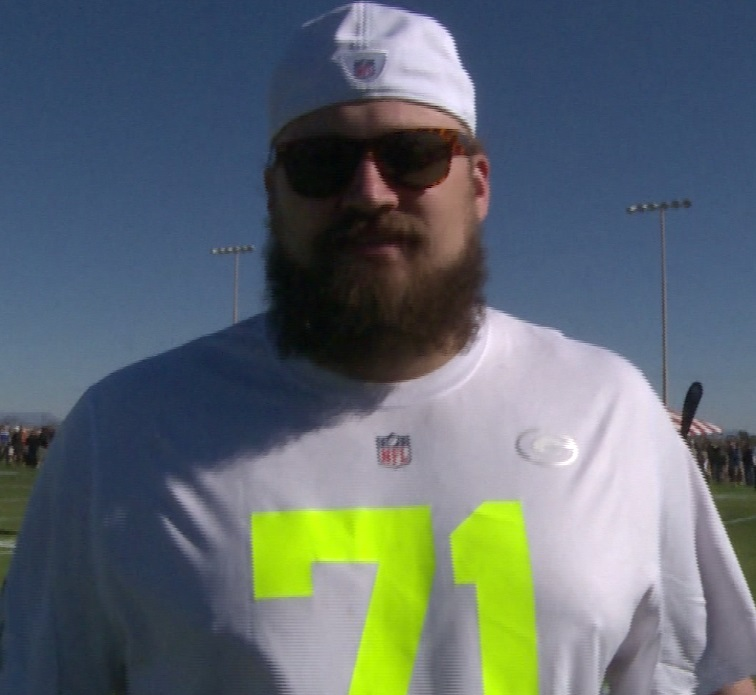 Josh Sitton at 2015 Pro Bowl practice